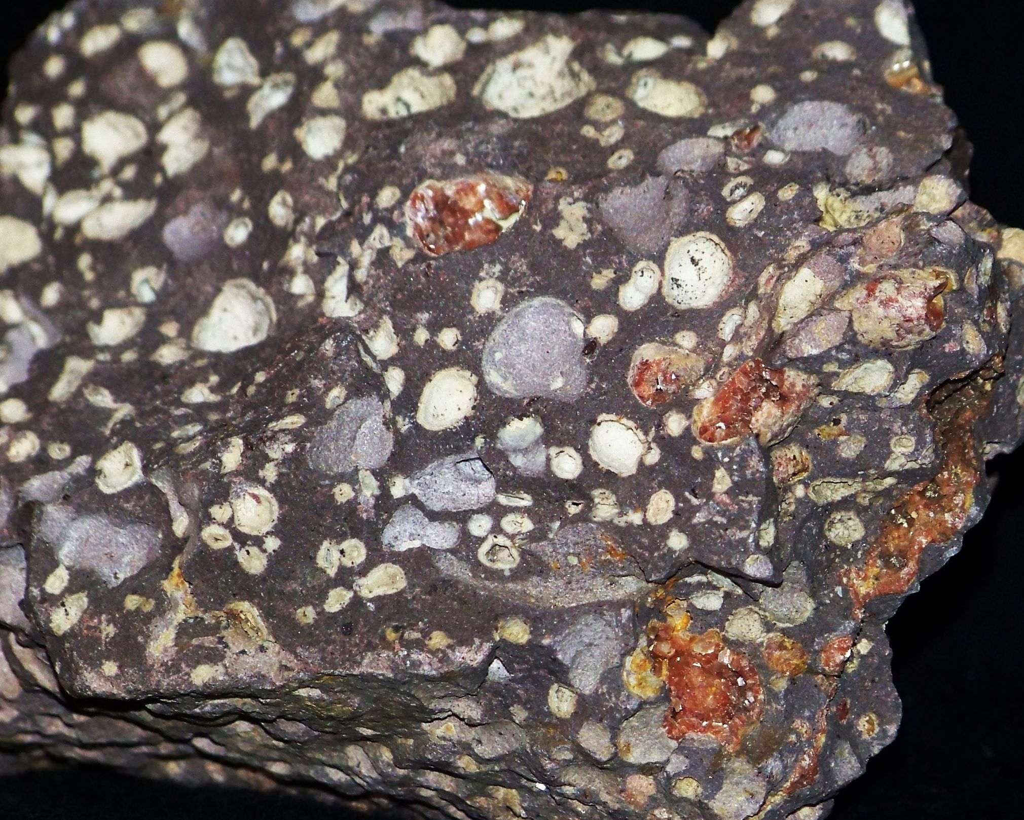 Melaphyry (basalt) occours saponite, heulandite (zeolite), Poland.